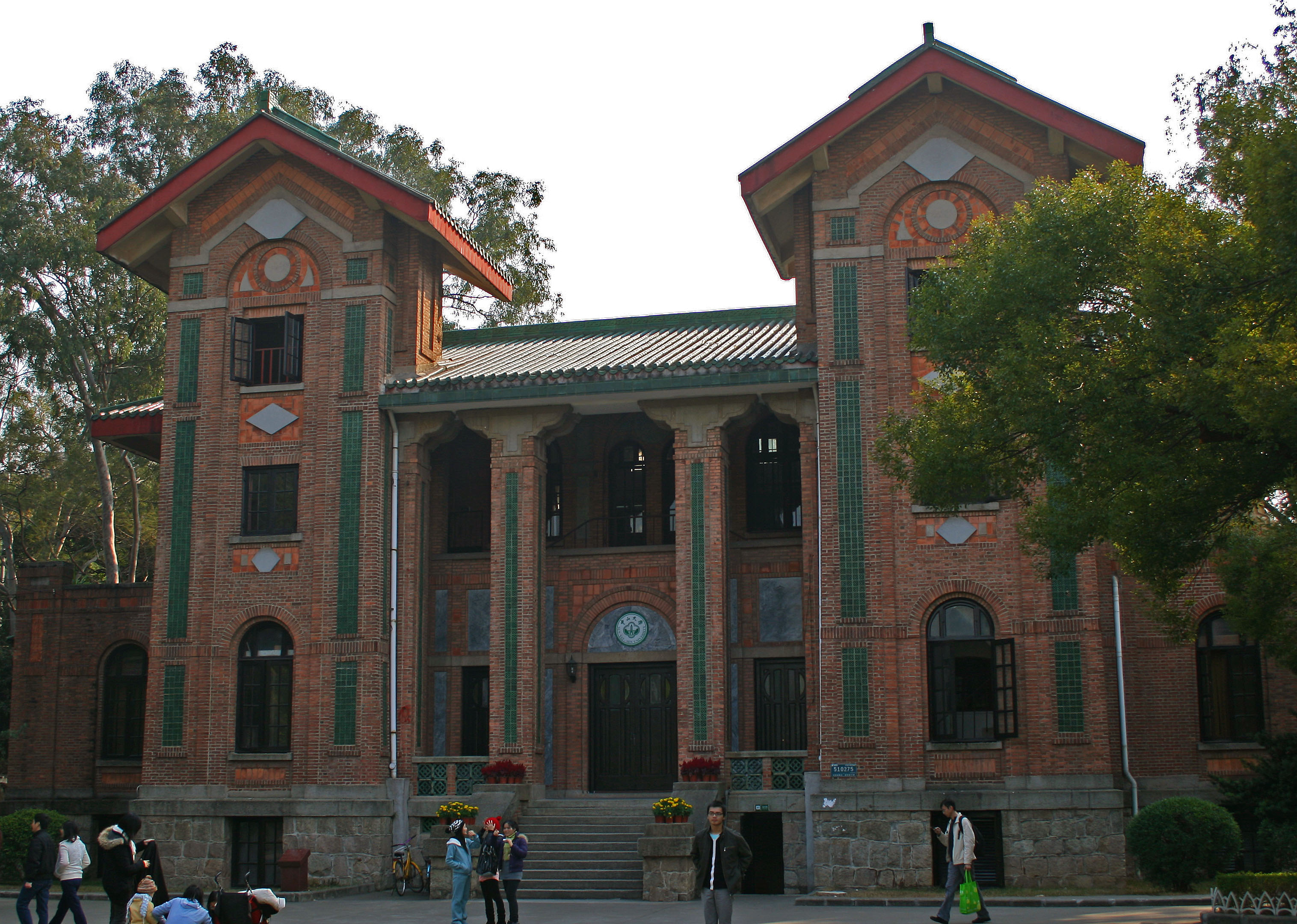 Swasey Hall of Sun Yat-sen University